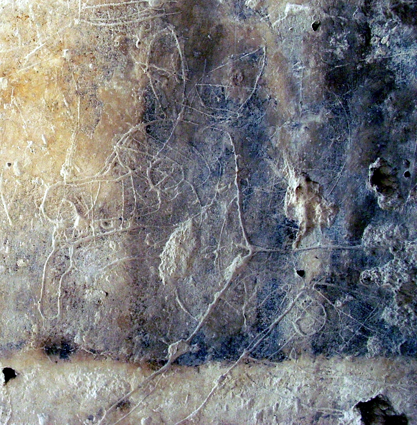 Maya graffito of a deer in the south range of the acropolis of La Blanca, Peten, Guatemala.